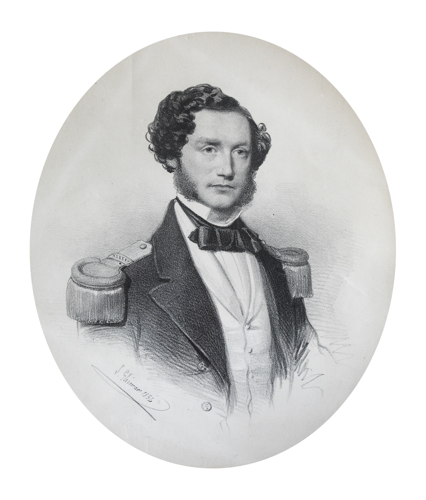 Portait of Guillaume Delcourt by Louis-Joseph Ghémar. 23.5cm X 20.5cm